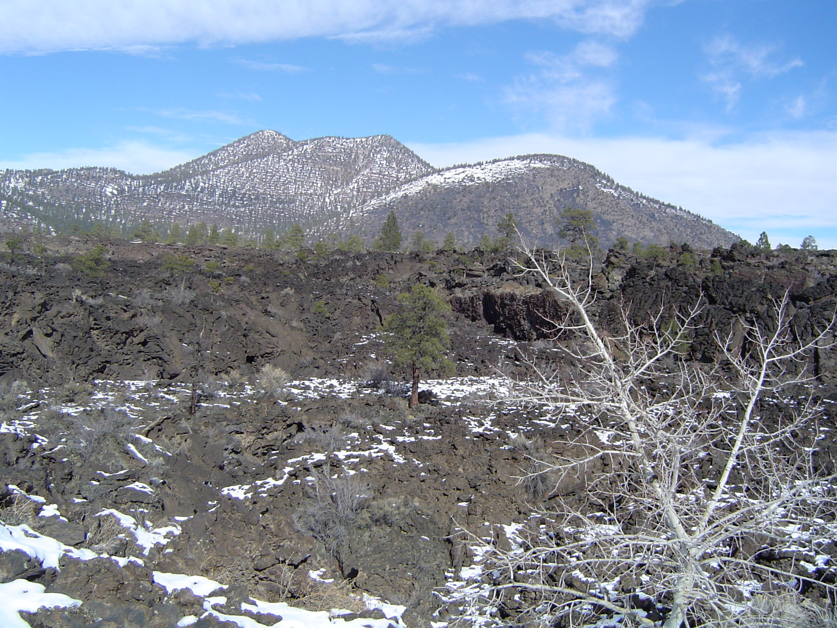 Bonito Lava Flow Photographed and uploaded by user:Geographer